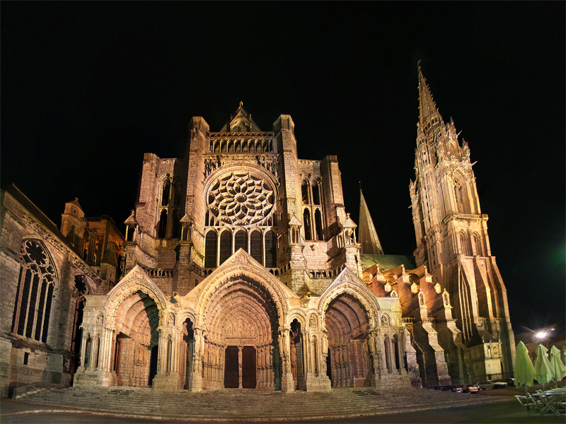 Chartres Cathedral, Eure-et-Loir, Centre, France. The north façade.